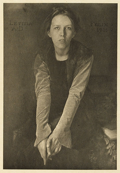 Ms. Letitia A. Felix. Miss Felix was the youngest sister of Mr. White's wife.